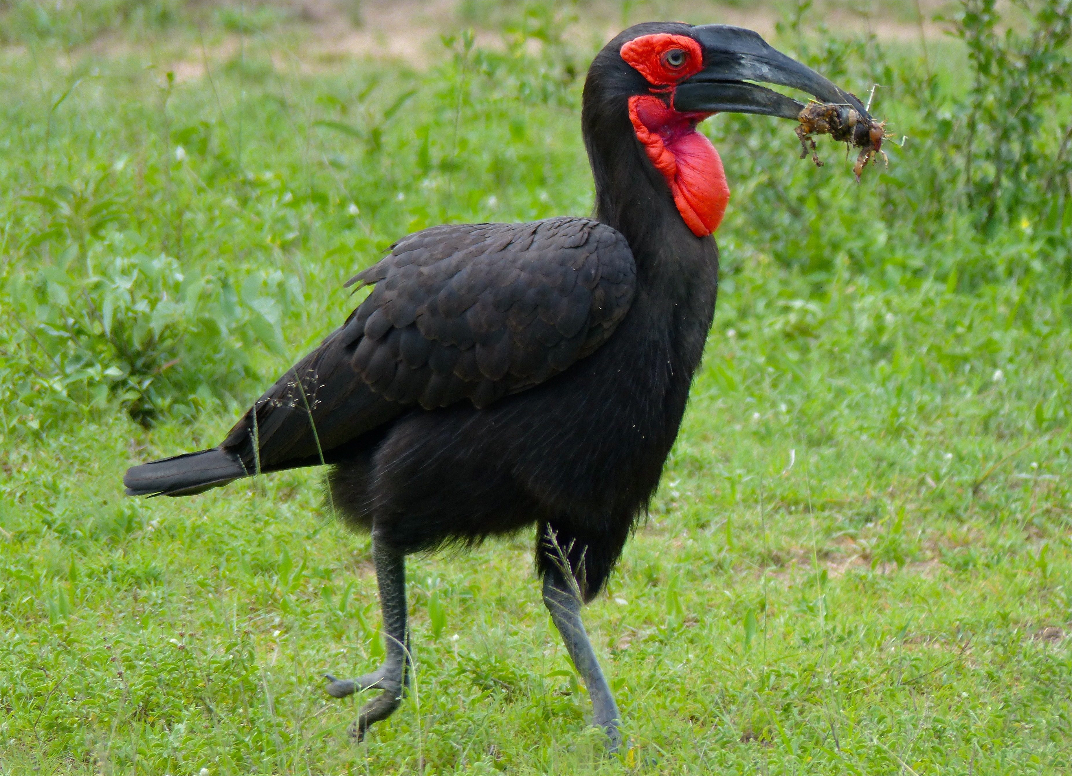 S30 Road, North of Lower Sabie, Kruger NP, SOUTH AFRICA